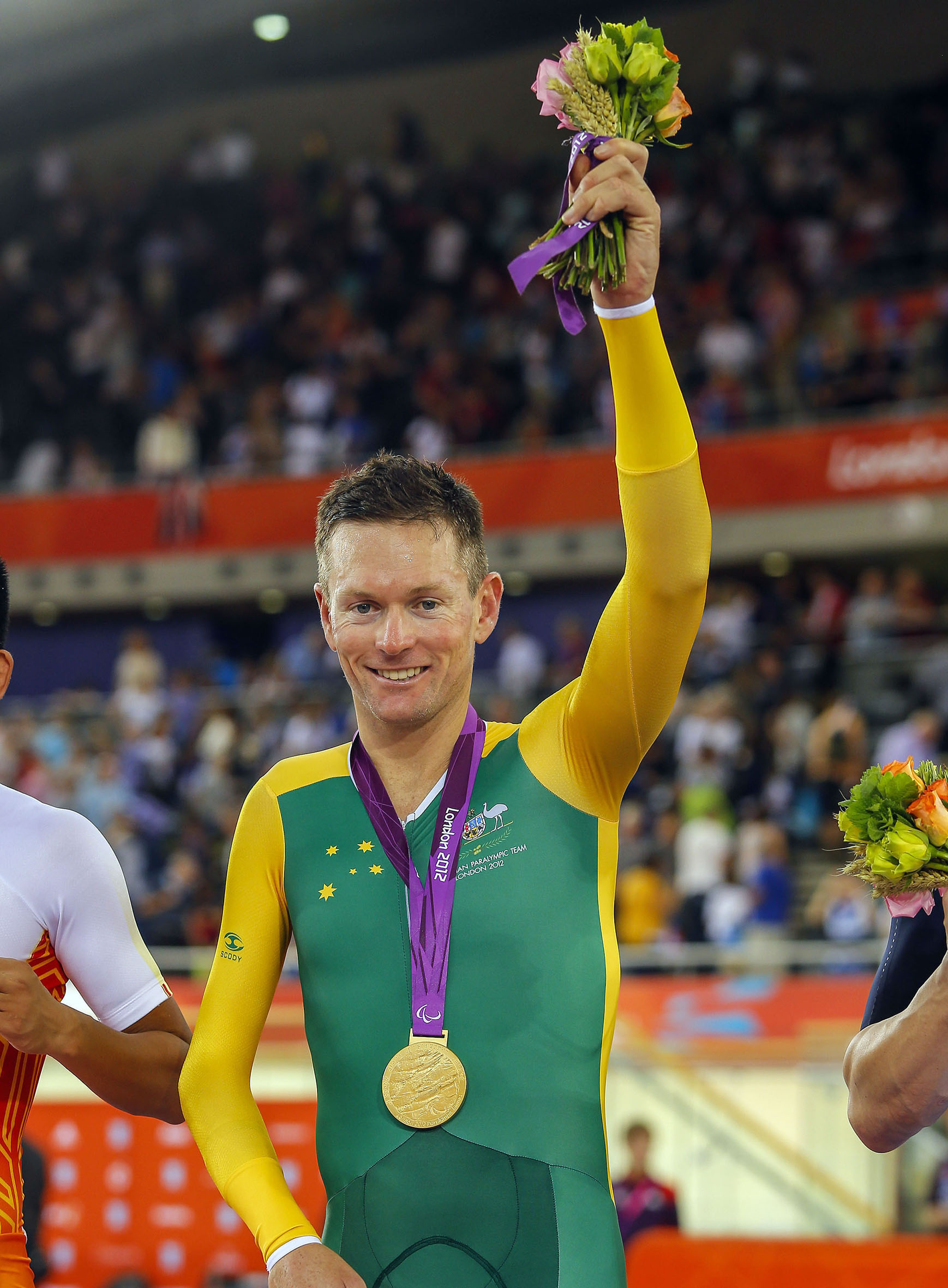 Photograph of Australian Paralympic team member Michael Gallagher at the 2012 Summer Paralympic Games in London